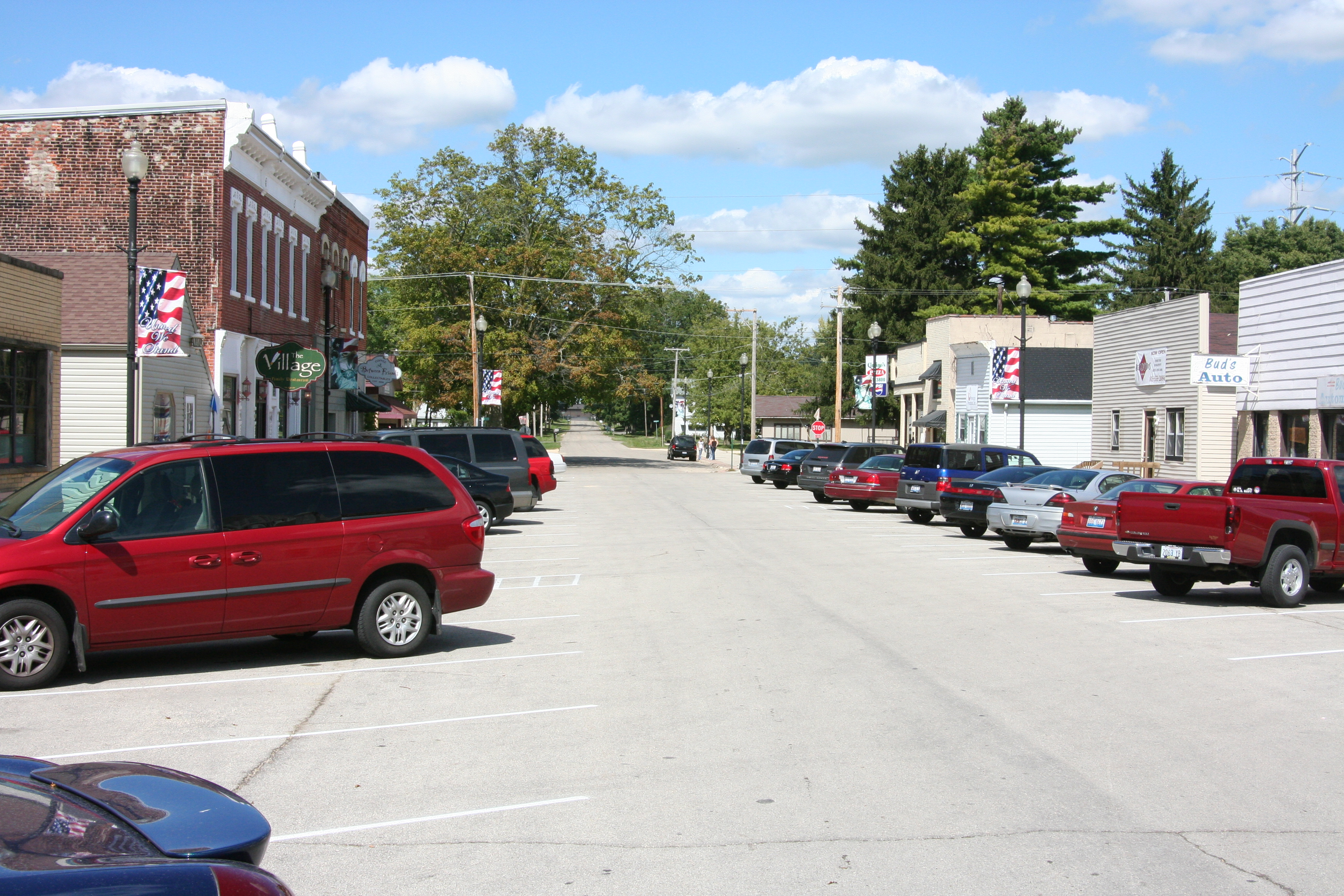 A shot of downtown Winnebago, Illinois, USA.